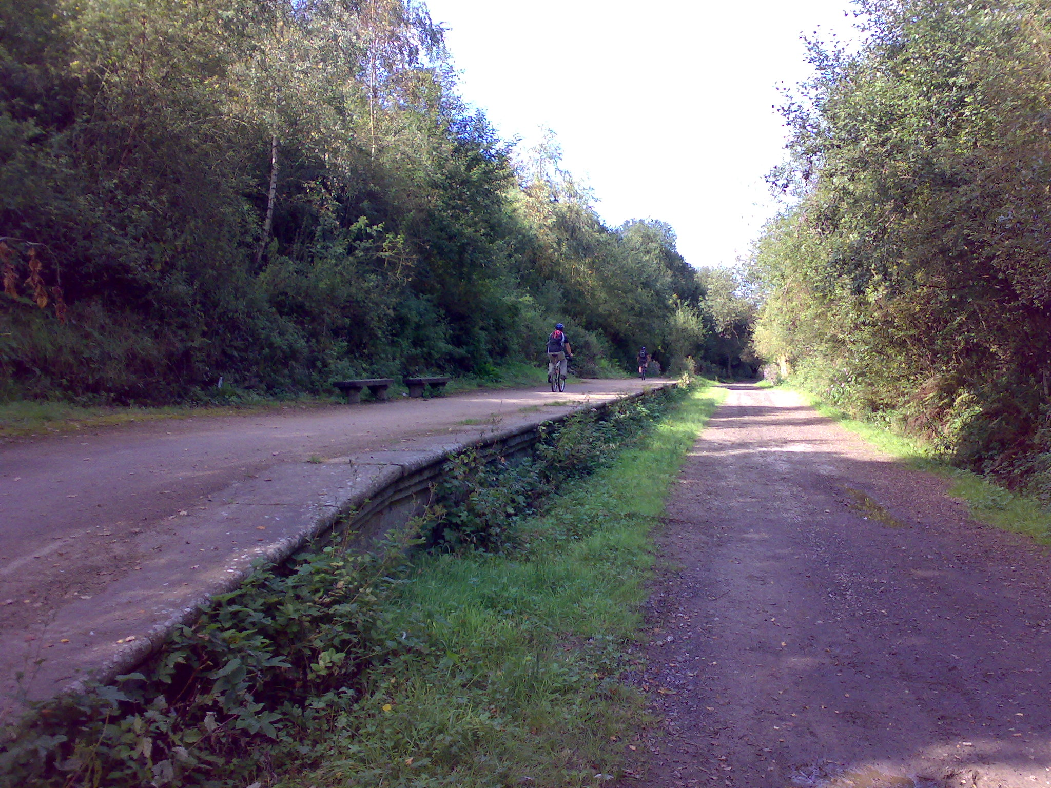 The disused station on the original East Lancashire Railway line, looking North to Outwood Viaduct and Radcliffe